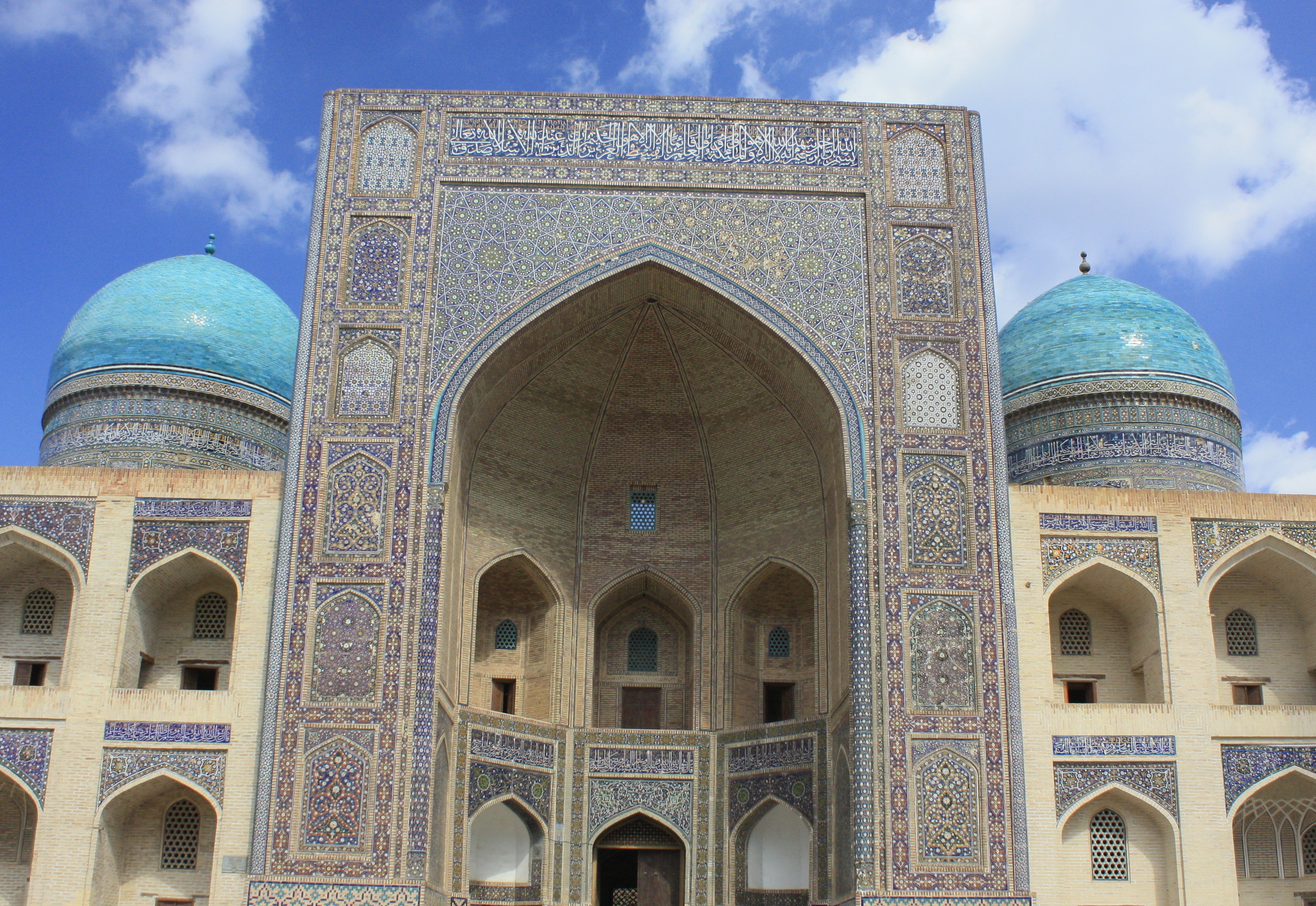 A view of the Mir-i-Arab Madrassa in Bukhara, Uzbekistan